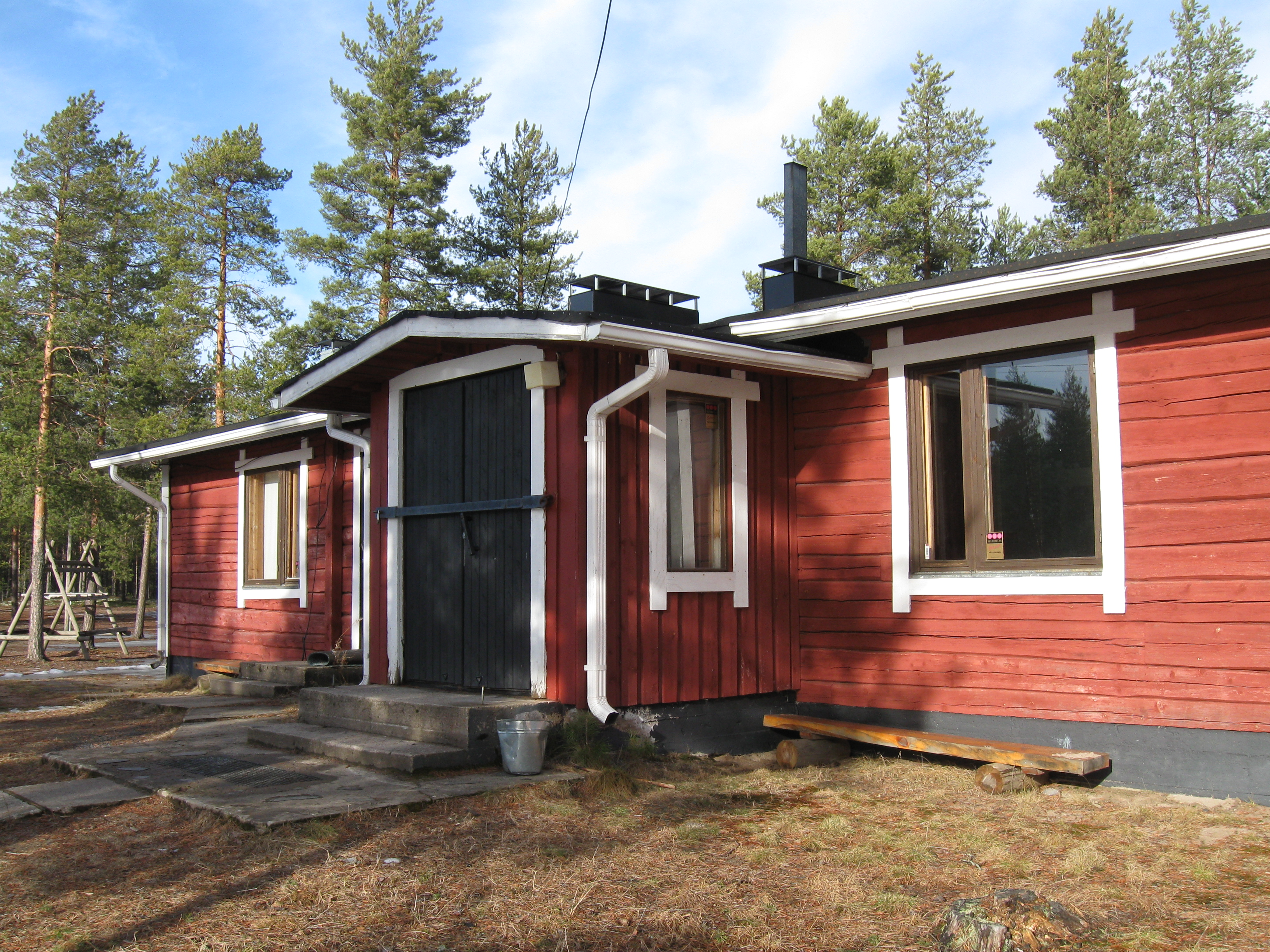 The cottage at the Kisakangas skiing and sports area in Oulunsalo, Finland, owned by the sports club Oulunsalon Vasama.